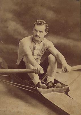 Portrait of Ned Hanlan.